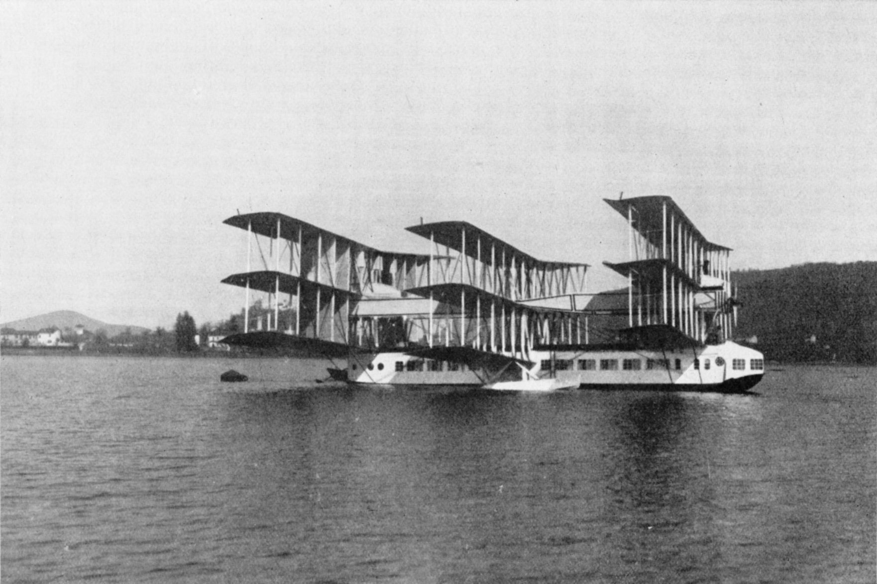 Caproni Ca.60 experimental flying boat on Lake Maggiore, 1921. The Caproni Ca.60, or Transaereo, was a nine-wing flying boat intended to be a prototype for a 100 passenger trans-atlantic airliner. It featured eight engines and three sets of triple wings.